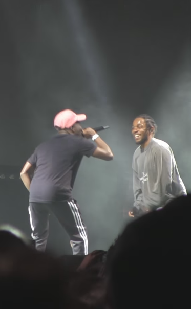 Isaiah Rashad and Kendrick Lamar